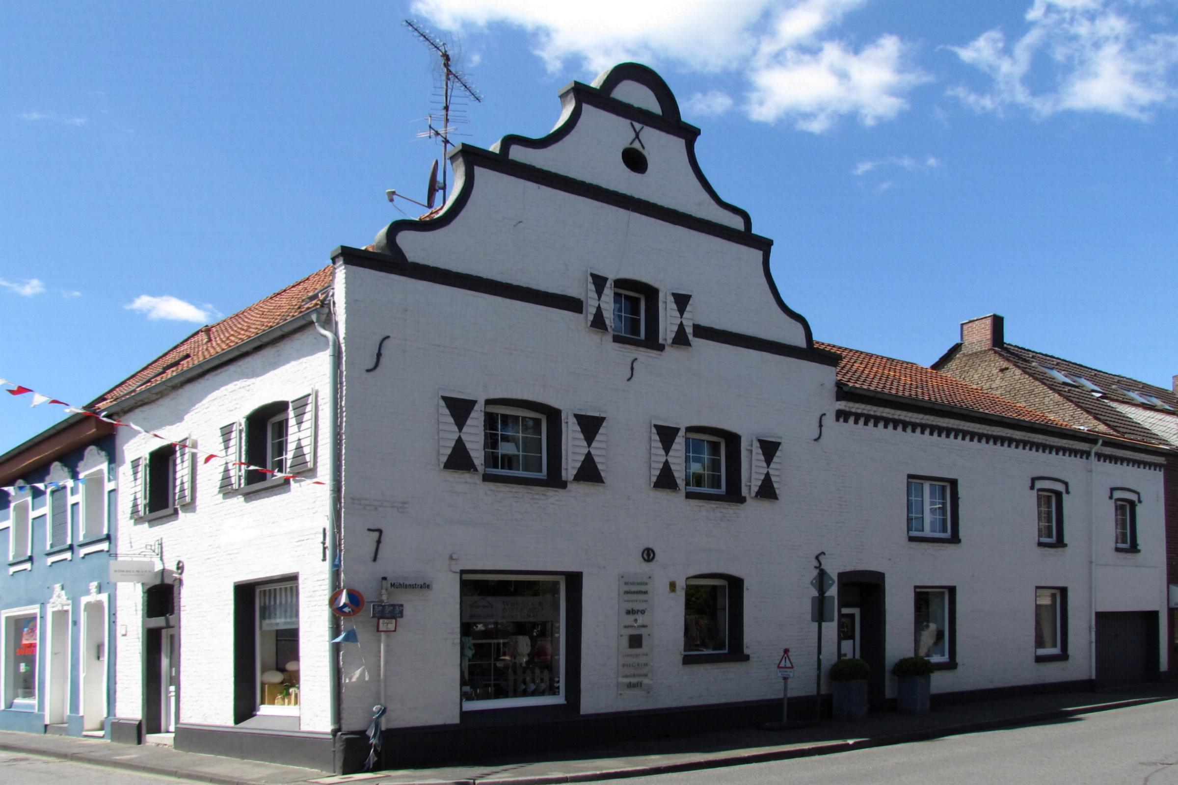 This is a photograph of an architectural monument.It is on the list of cultural monuments of Korschenbroich